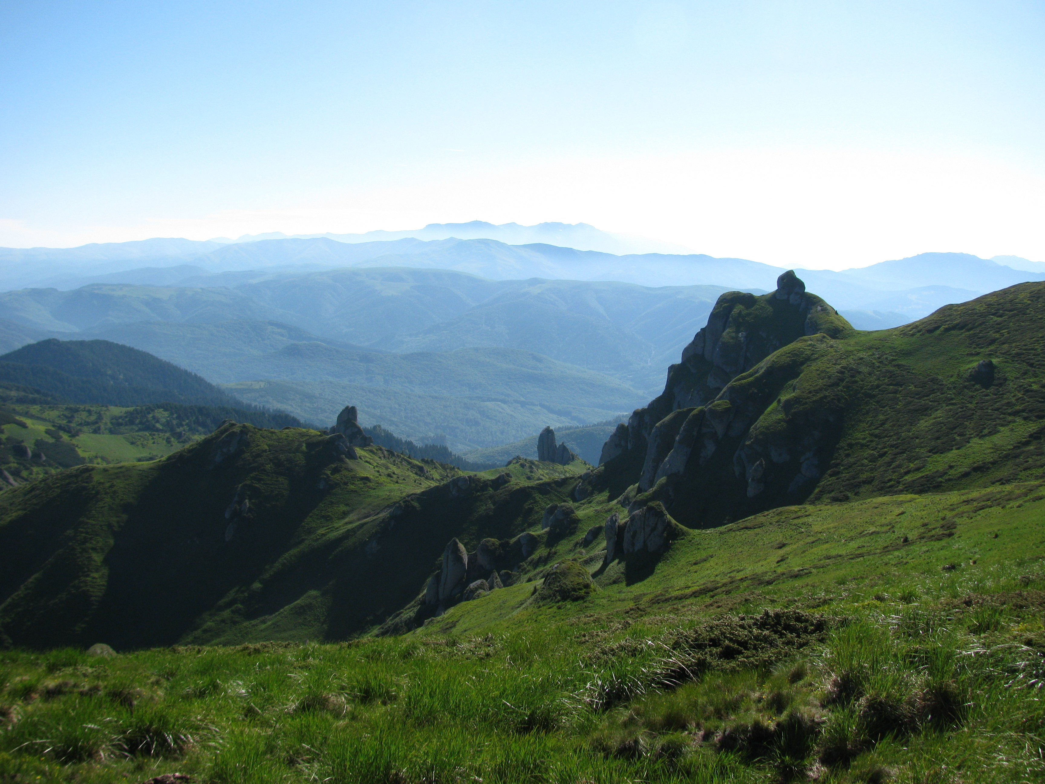 View of the Ciucaş, Prahova County, Romania.